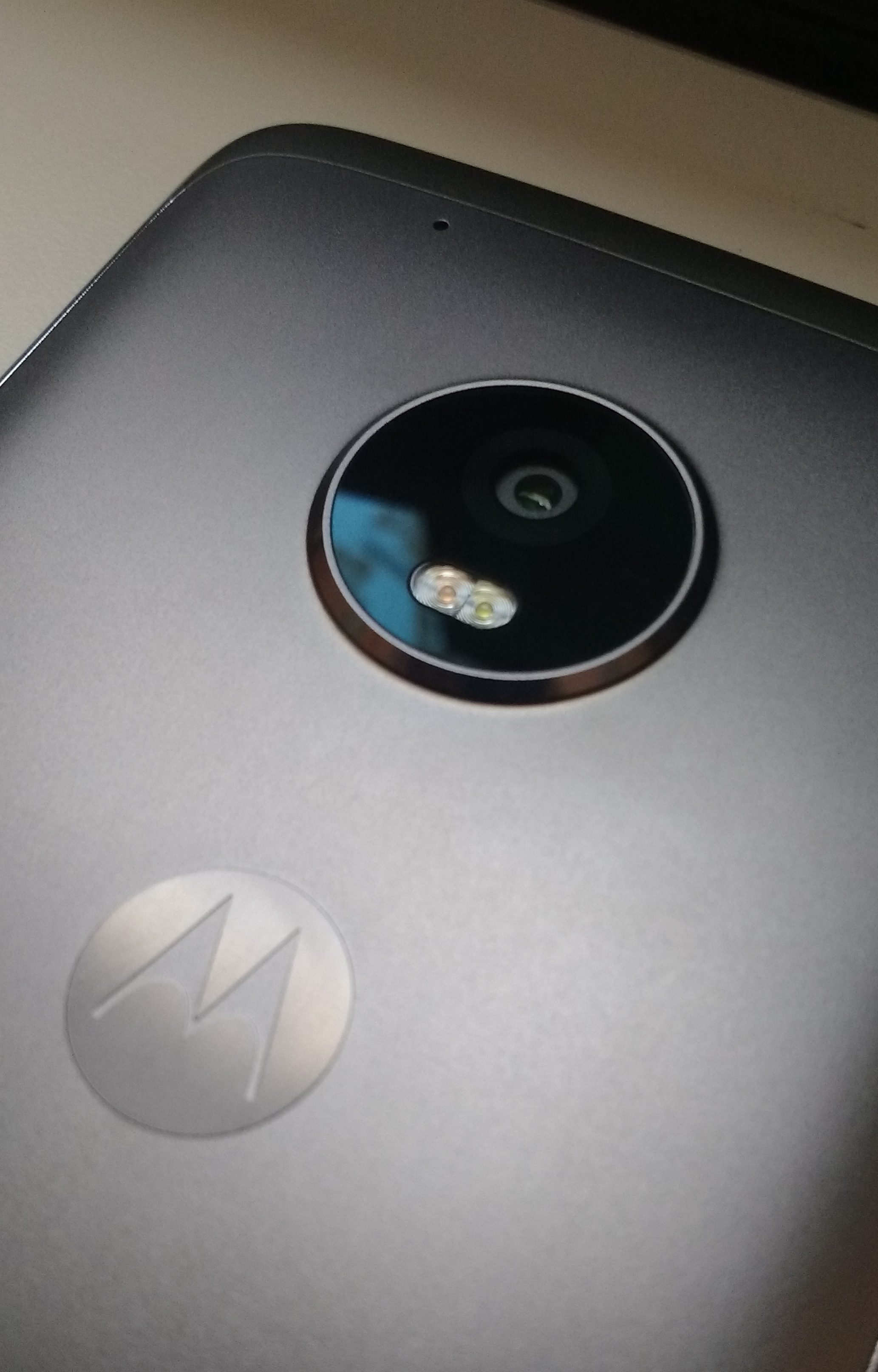 Moto G5 Plus XT1687 camera lens dual-pixel